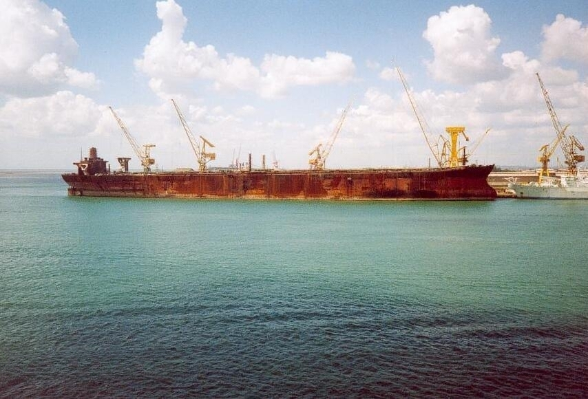 The tanker Seawise Giant during its reparations at Hitachi shipyard of Singapore on December 27, 1990 after being hit by Iriaqi Exocet during the Iran- Irak war.